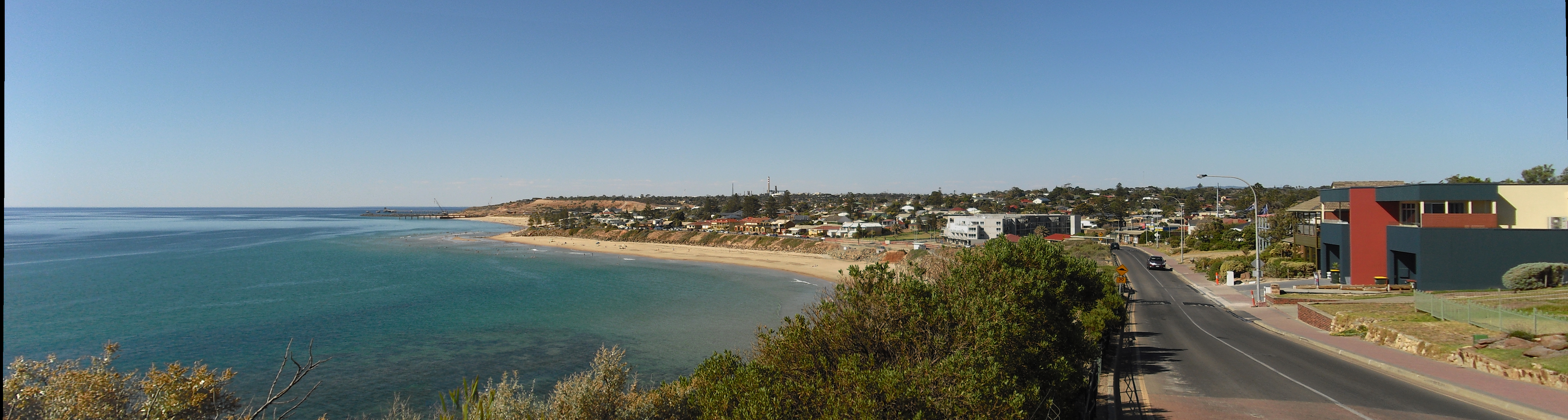 A panorma of Christies Beach, SA, as seen looking north from a seaside bluff south of town (on teh way to Port Noarlunga)